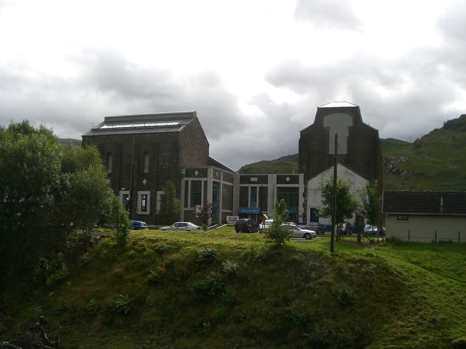 This is the famous Ice Factor in Kinlochleven